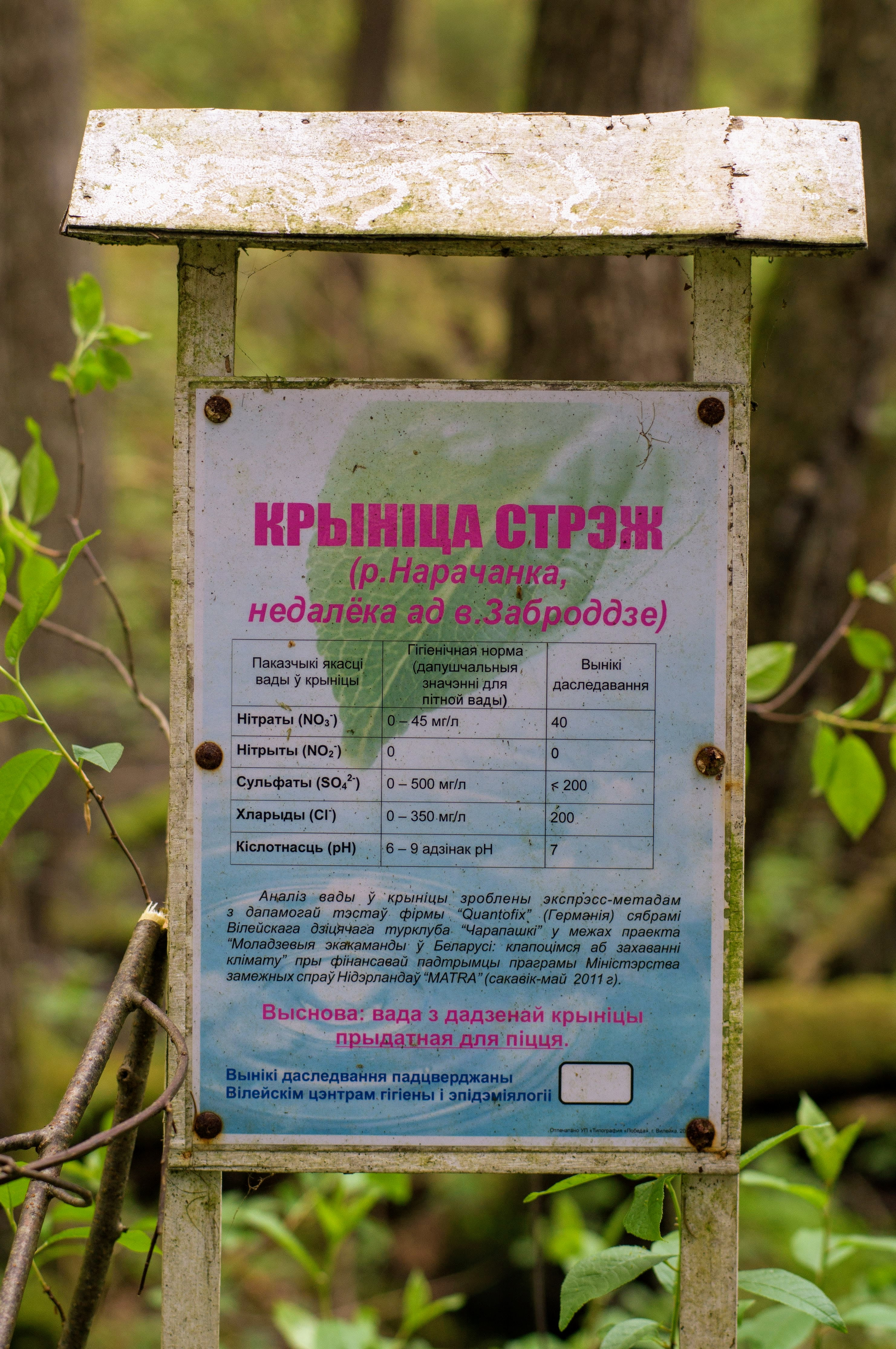 The Strezh spring is a hydrological natural monument of local significance in the Vileyka district.